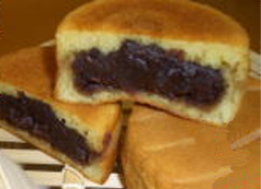 Imagawayaki